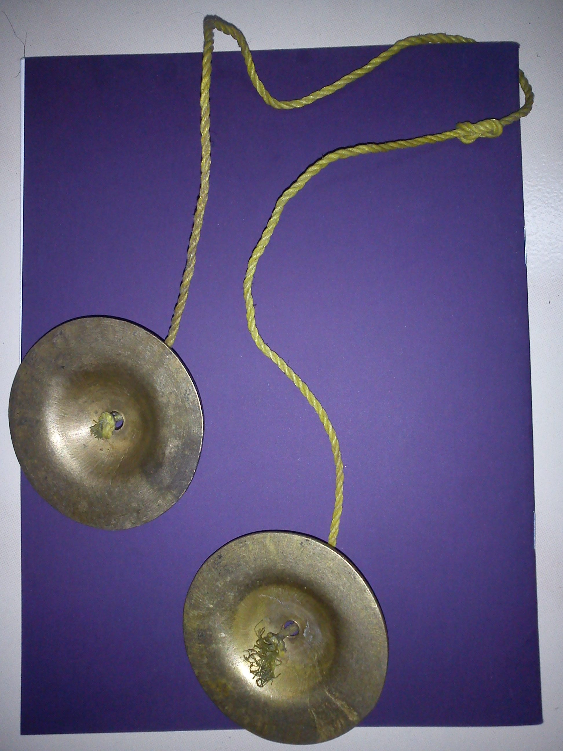 Manjeera aso known as Taal/ Kartal is an Indian Percussion Instrument